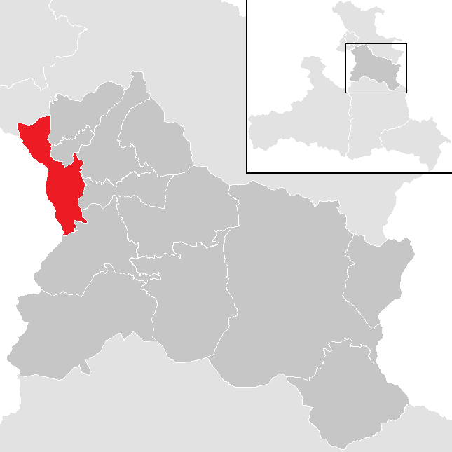 District Hallein